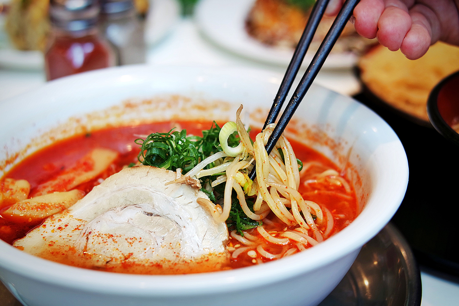 No joke, this is the name of the ramen as written on the menu